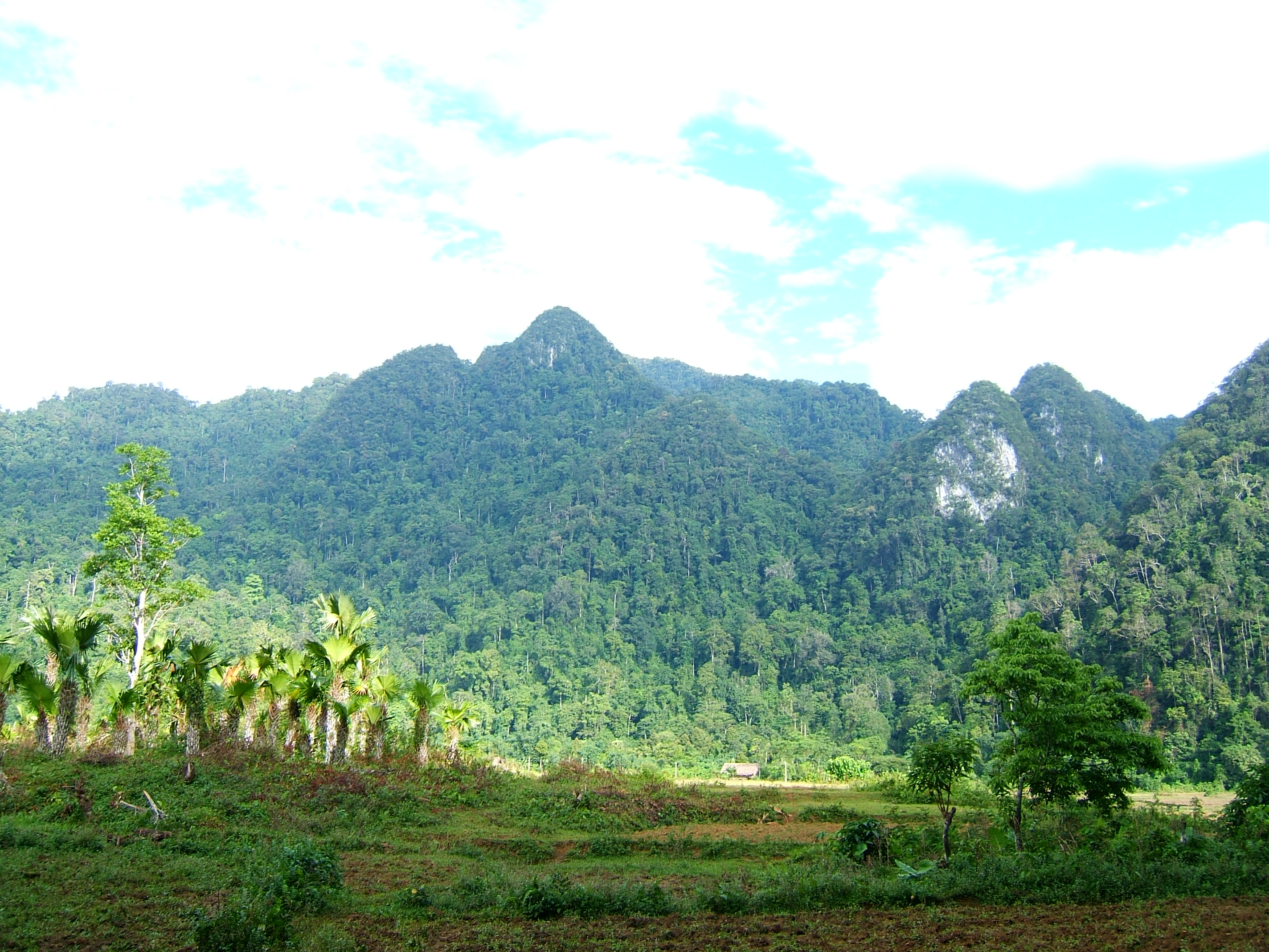 Xuon Son National Park, Vietnam